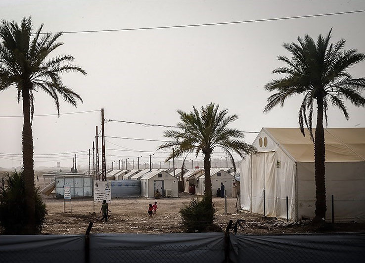 People of Fallujah in UNHCR camp due to the battle of Fallujah.